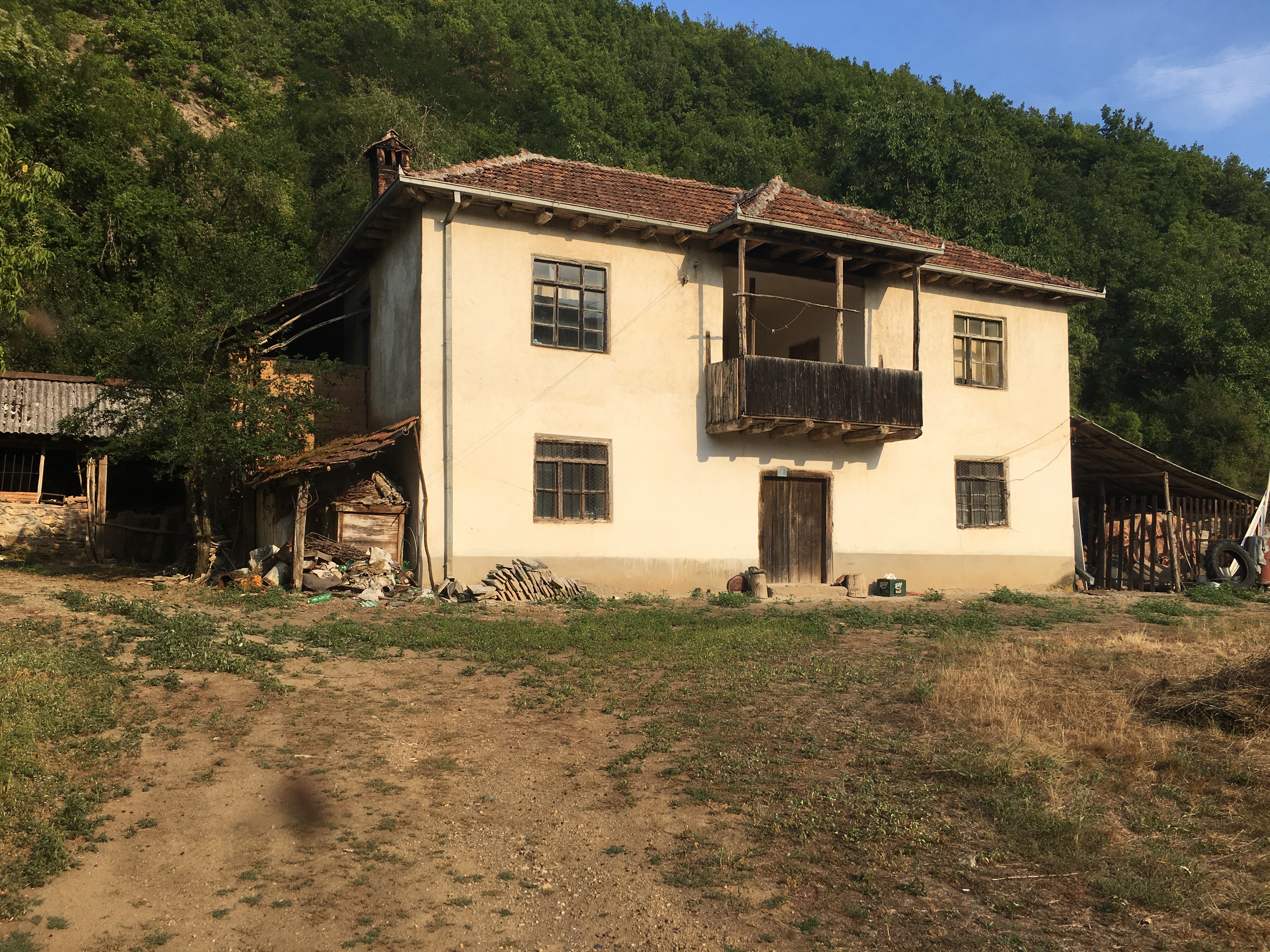 A house in the village of Rasino